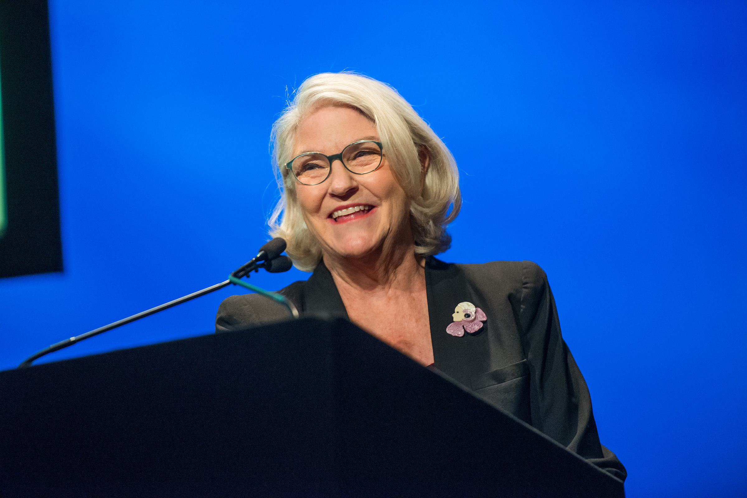 Rebecca Eaton hosts a screening and Q&A in New York to celebrate the premiere of “Downton Abbey, Season 6” on MASTERPIECE on PBS.